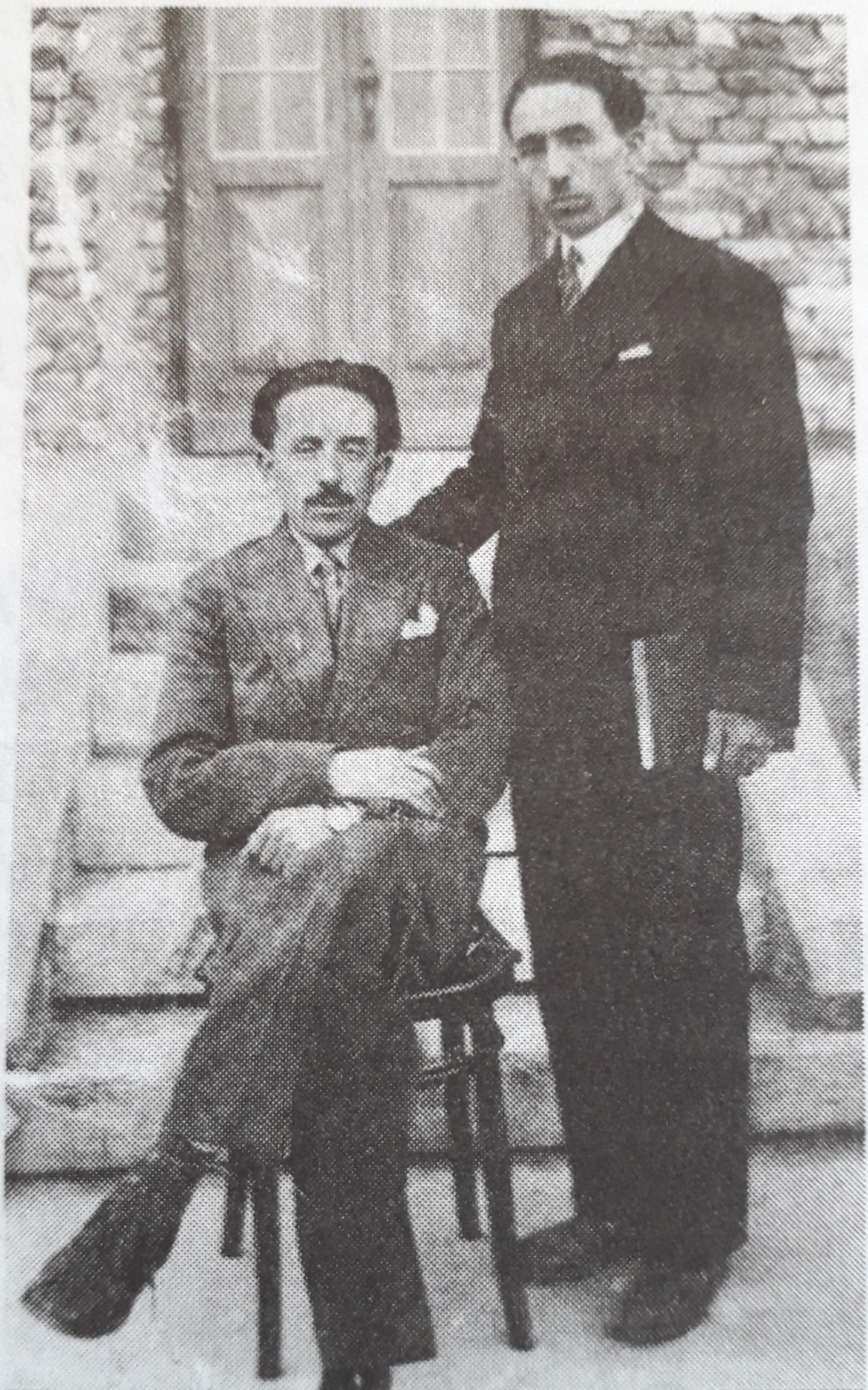 people